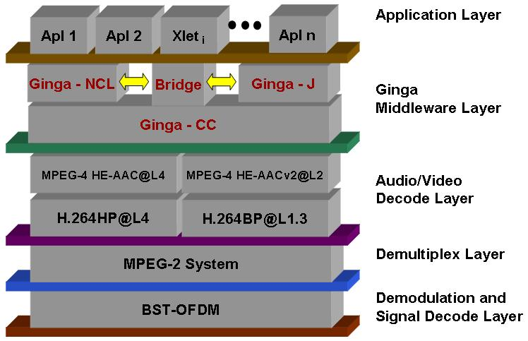 Diagram showing SBTVD system in layers and Ginga middleware layer